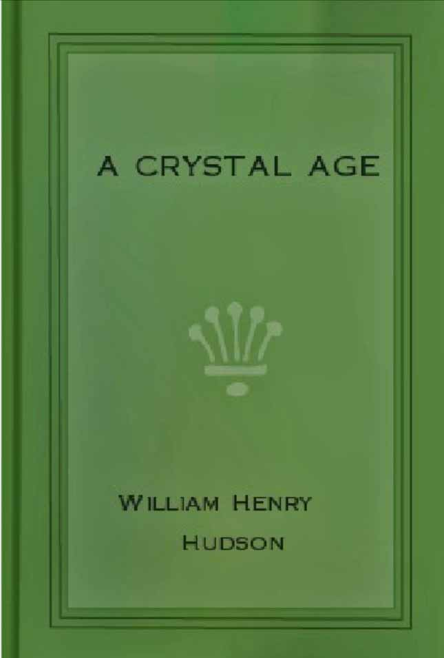 A Crystal Age (Cover), by. W.H. Hudson (1887)